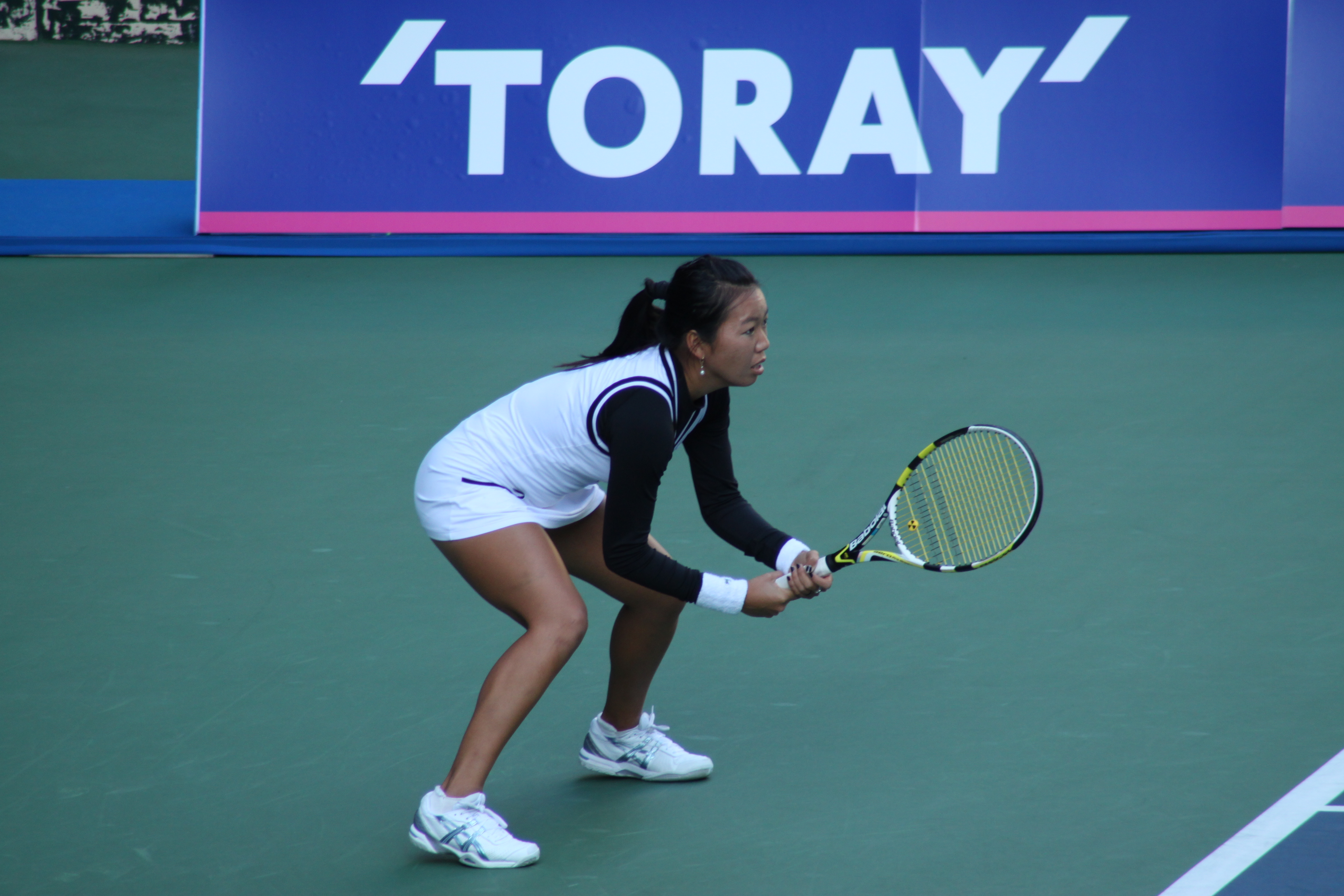 Vania King at 2010 Toray Pan Pacific Open Qualifying Singles Final, Tokyo, Japan